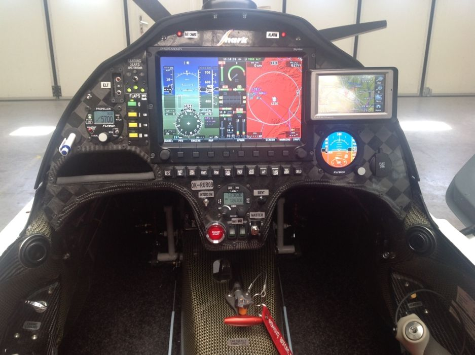 Glass Cockpit, Autopilot, Sidestick, Balistic Parachute, RG, VP